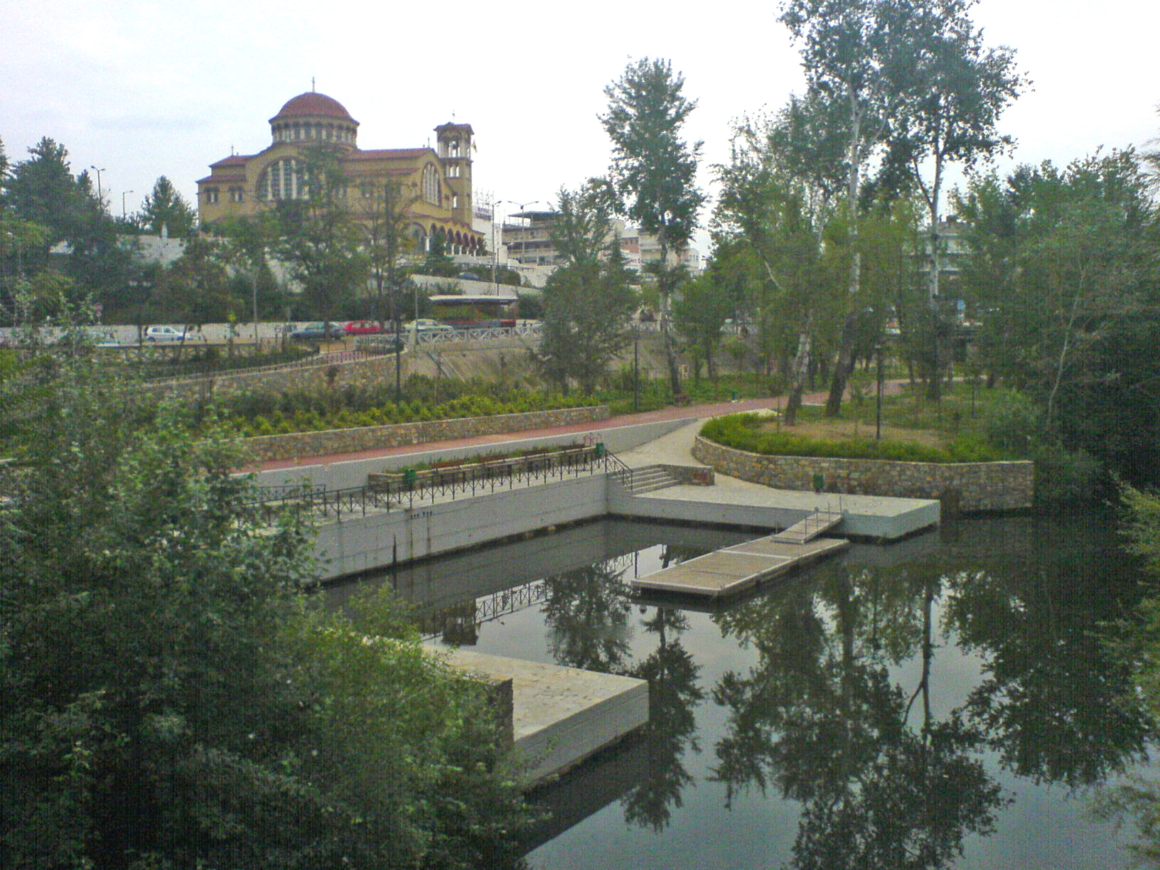 Pinios river and church of Agios Achilios in Larisa, Greece